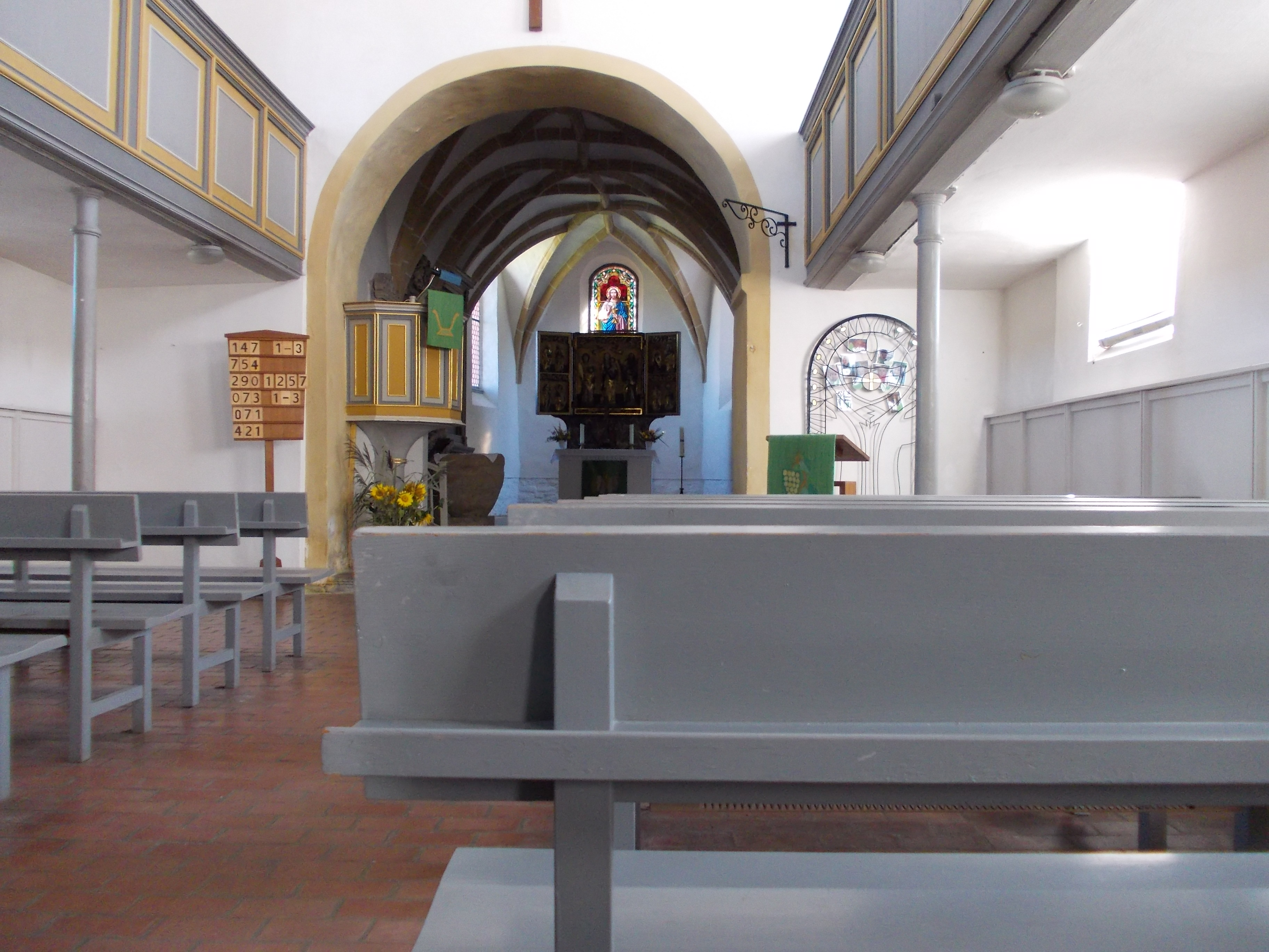 Interior of St. Nicholas Church in Machern (Leipzig district, Saxony)